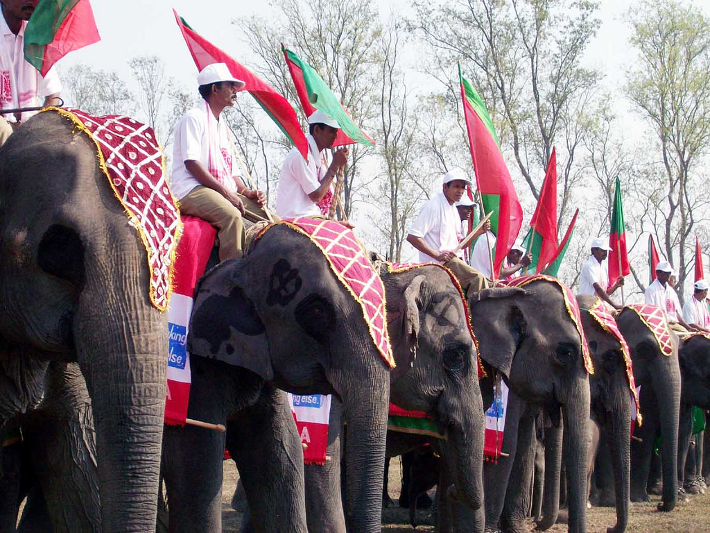 Elephants participating in the rally on the occassion of 7th Kaziranga Elephant Festival 2009 at Kohra, Kaziranga National Park under Golaghat district of Assam, India on 10th February 2009,Tuesday.